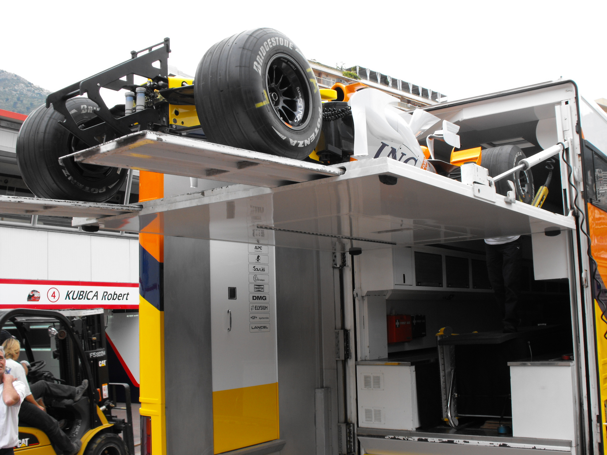 Two Renault R28 Formula 1 racing cars being unloaded from the Renault trailer at the pit lane at the 2008 Monaco Grand Prix.